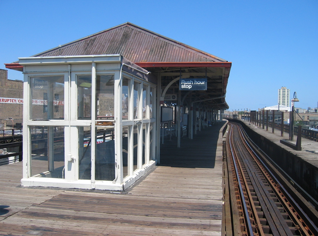 Wilson station on the CTA Red Line.